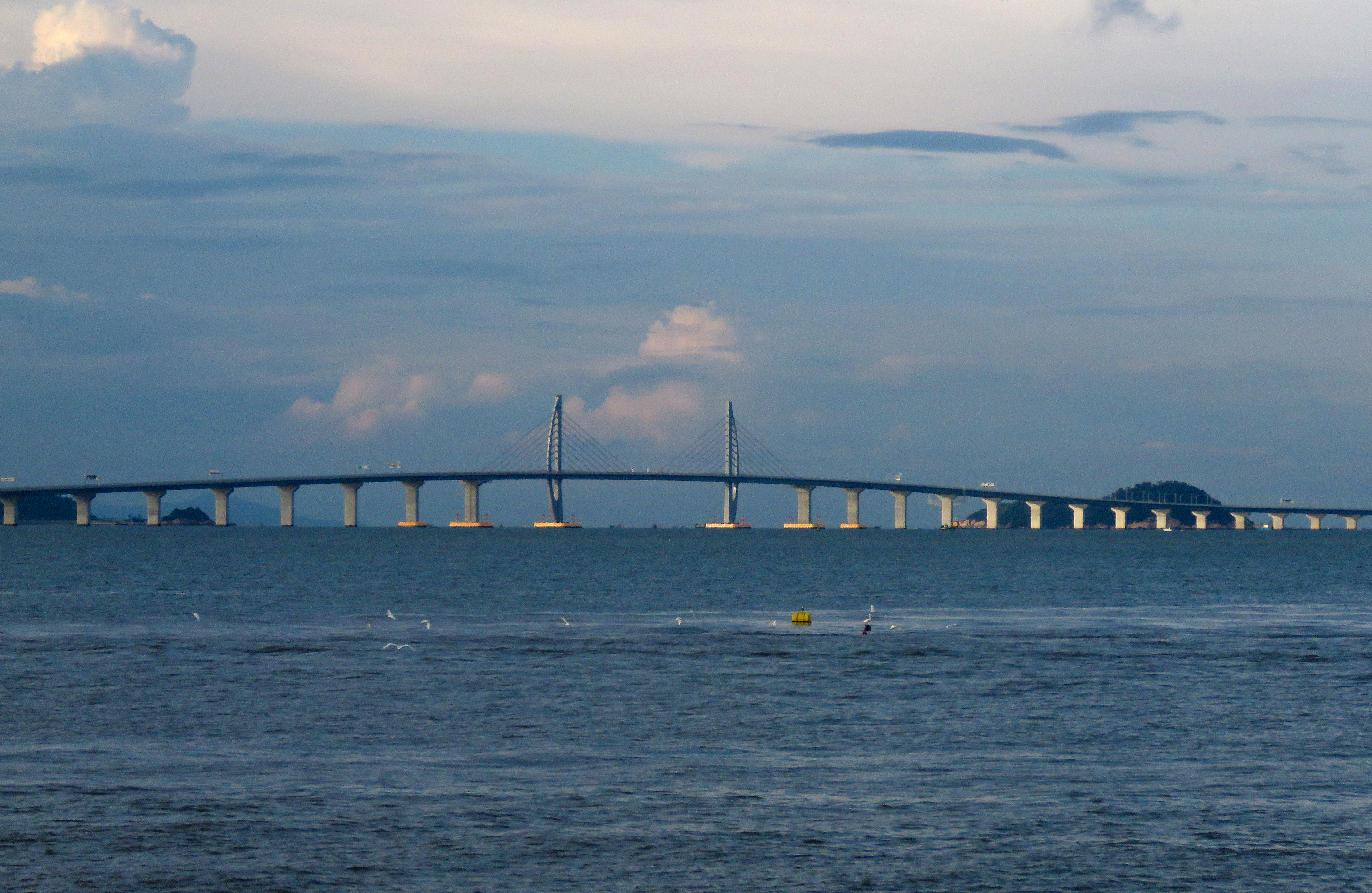 Taken from a TurboJET after leaving Macau.